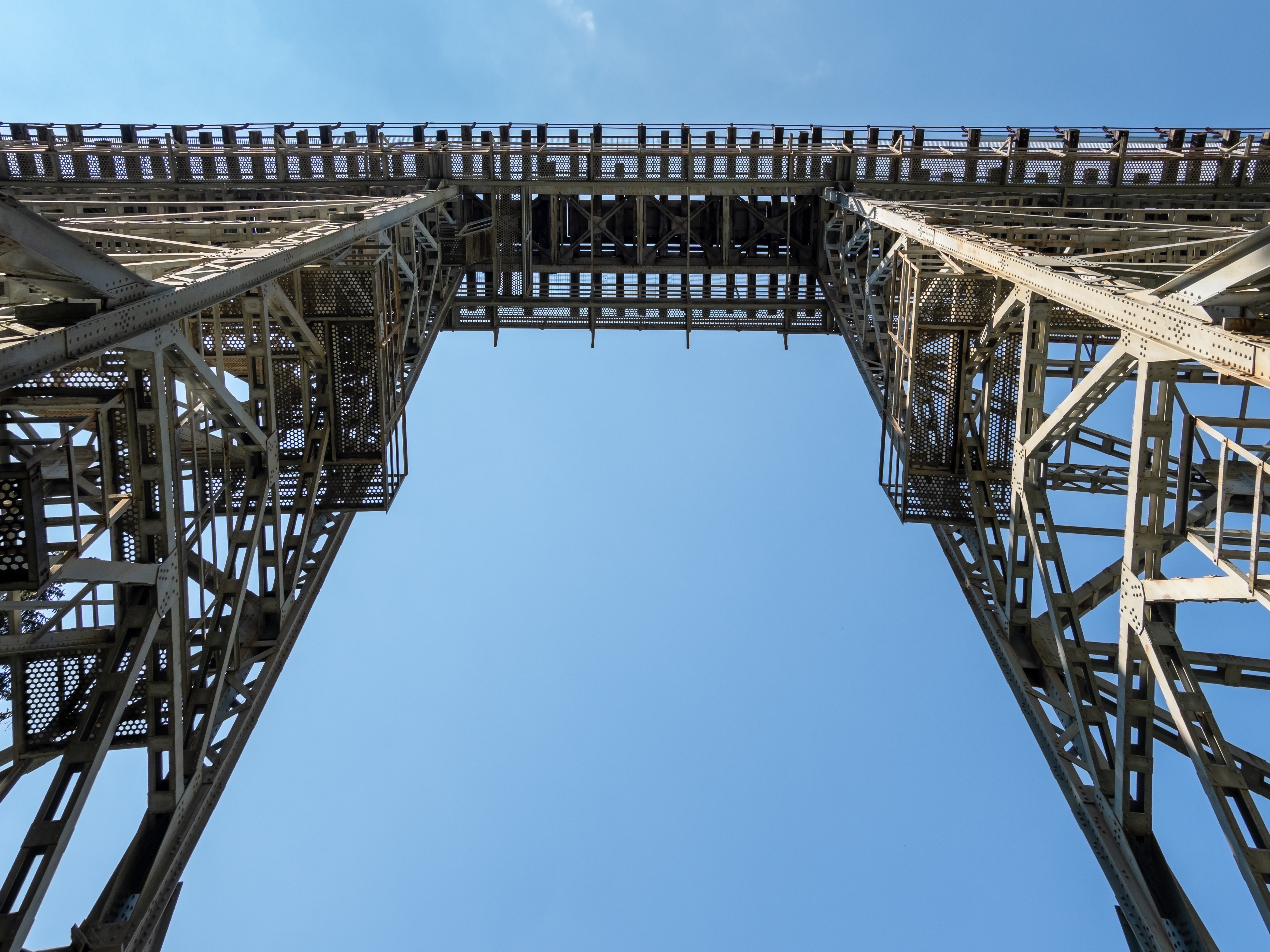 View up to the disused railway bridge over the Ziemestal